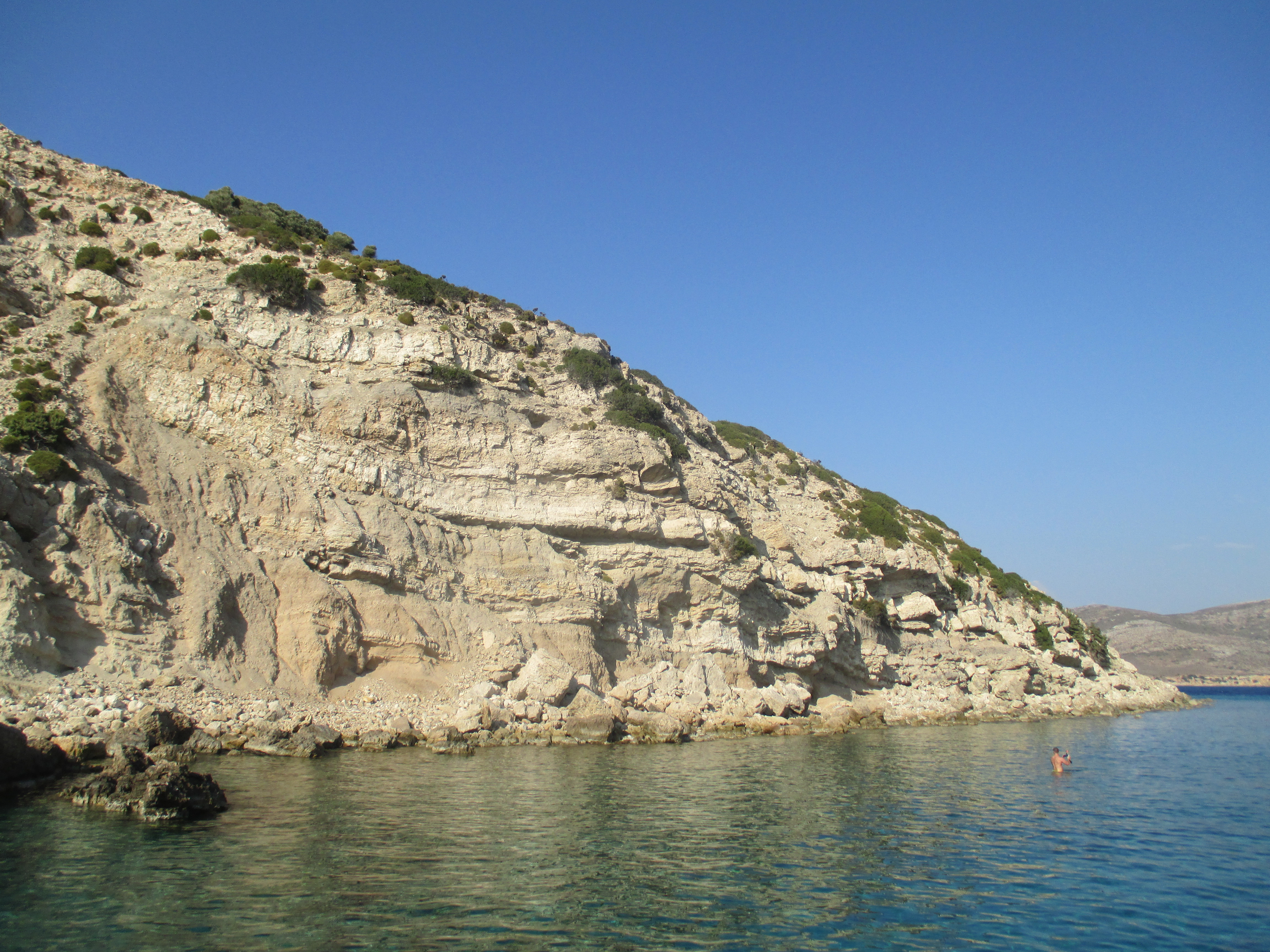 Plati (Πλάτη, Pláti) island, municipality of Kalymnos, Greece.